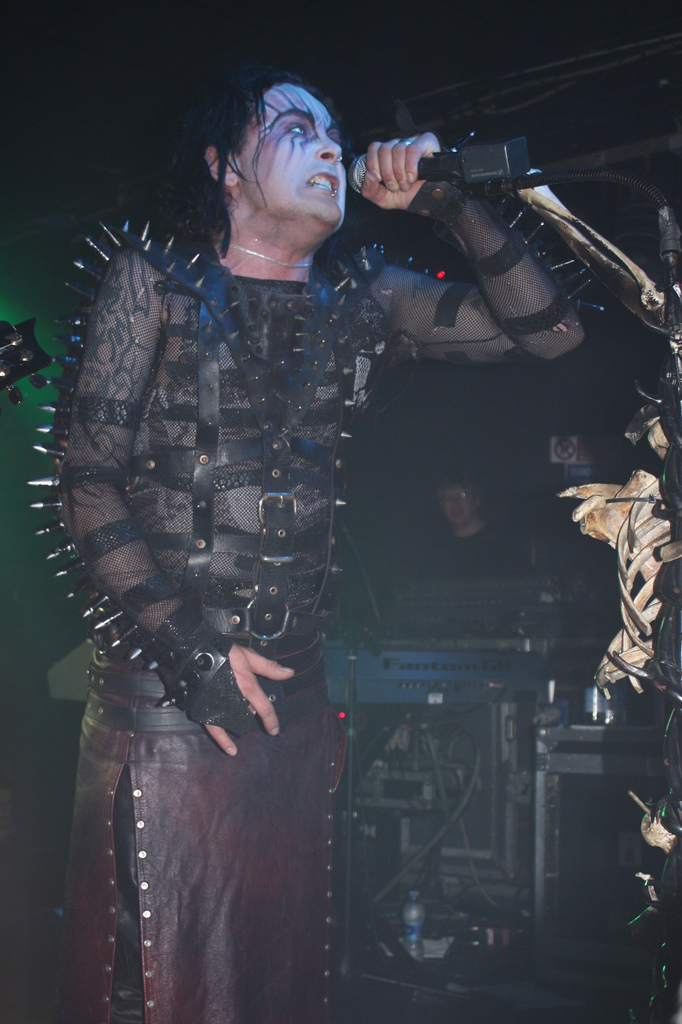 Dani Filth of Cradle of Filth